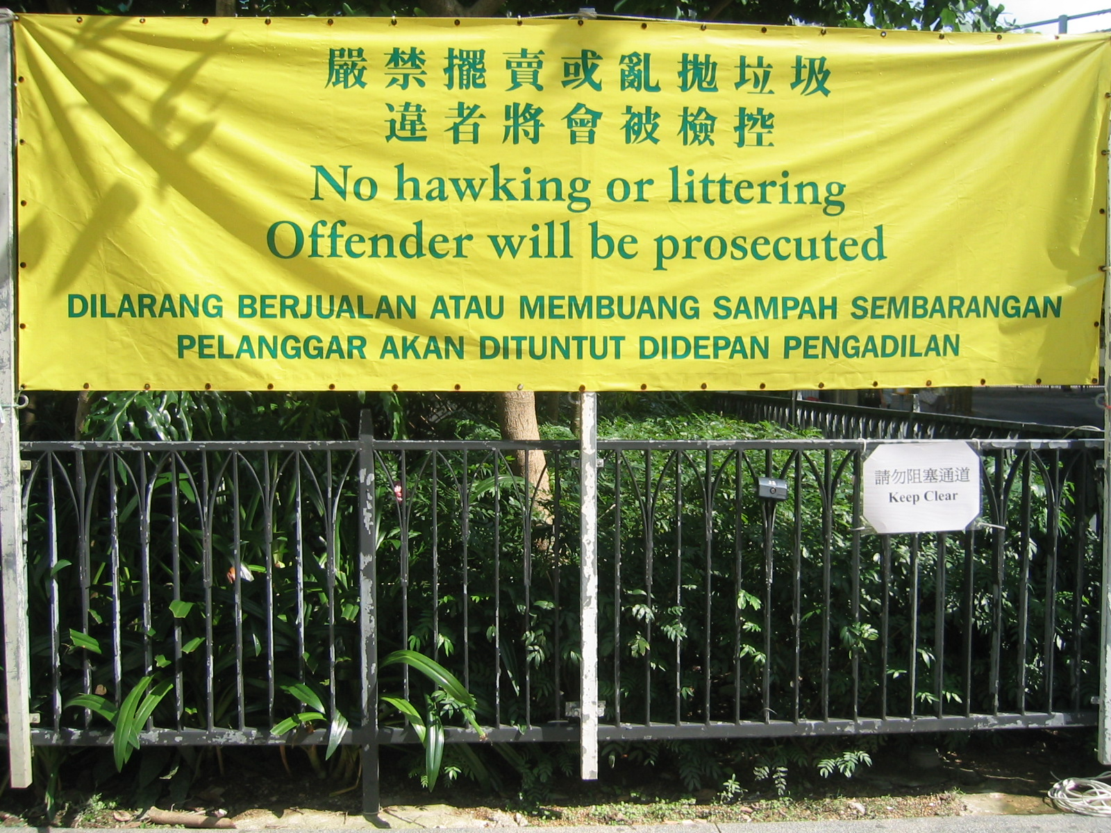 Banner in Victoria Park, Causeway Bay, Hong Kong